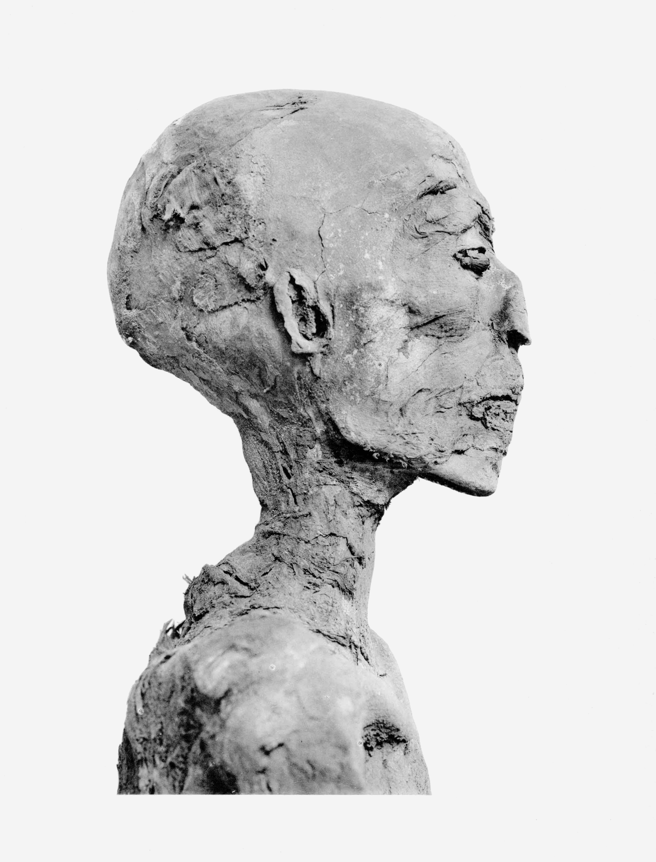 Head of mummy of pharaoh Ramesses IV.